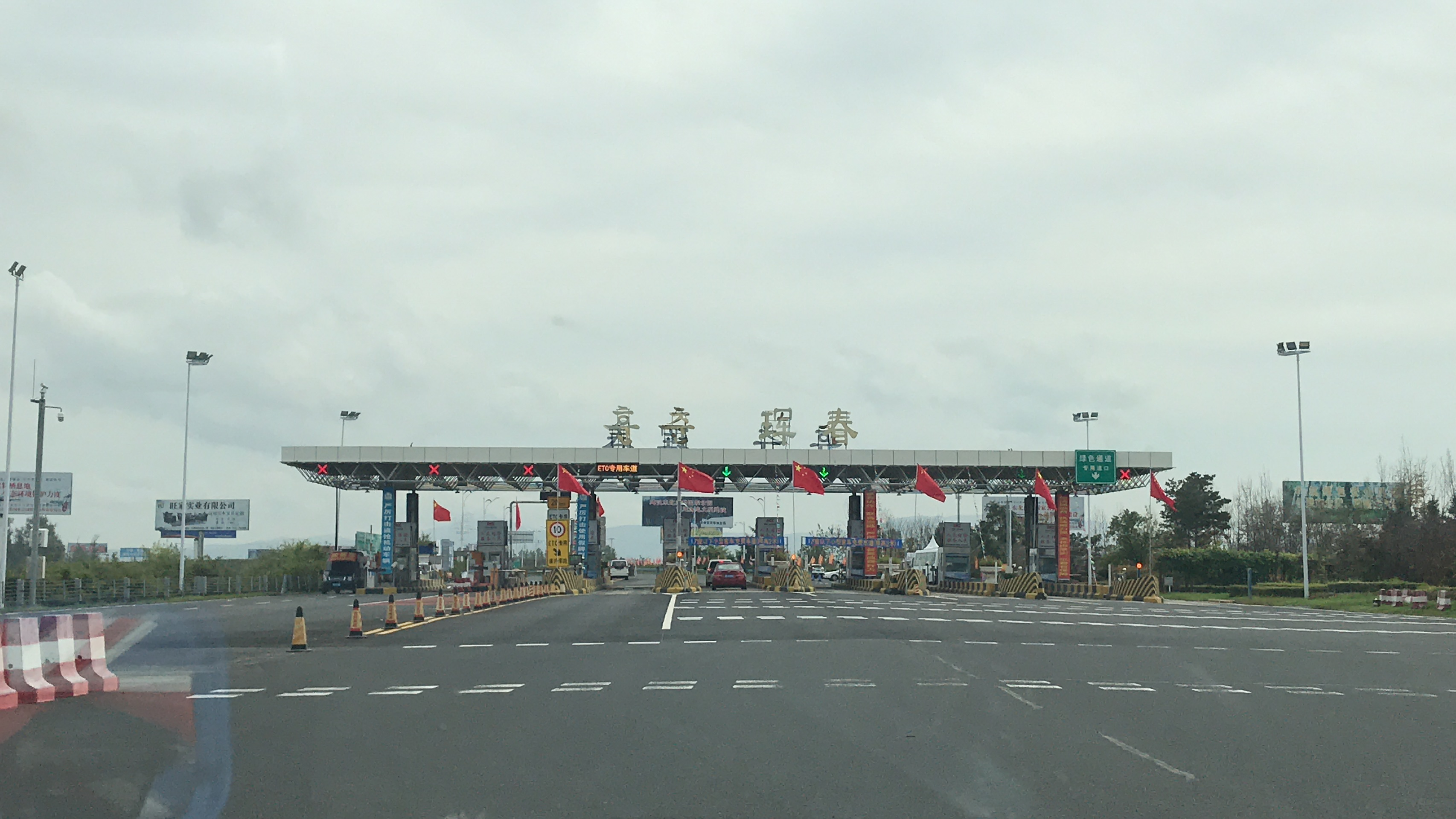 G12 Hunwu Expressway - Hunchun Toll